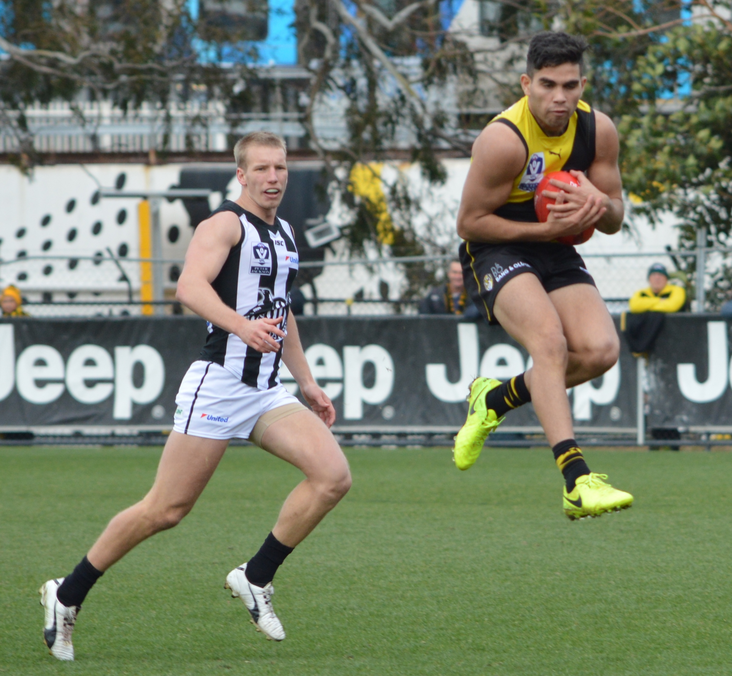 Tyson Stengle takes a mark in a VFL match at Punt Road Oval in July 2017